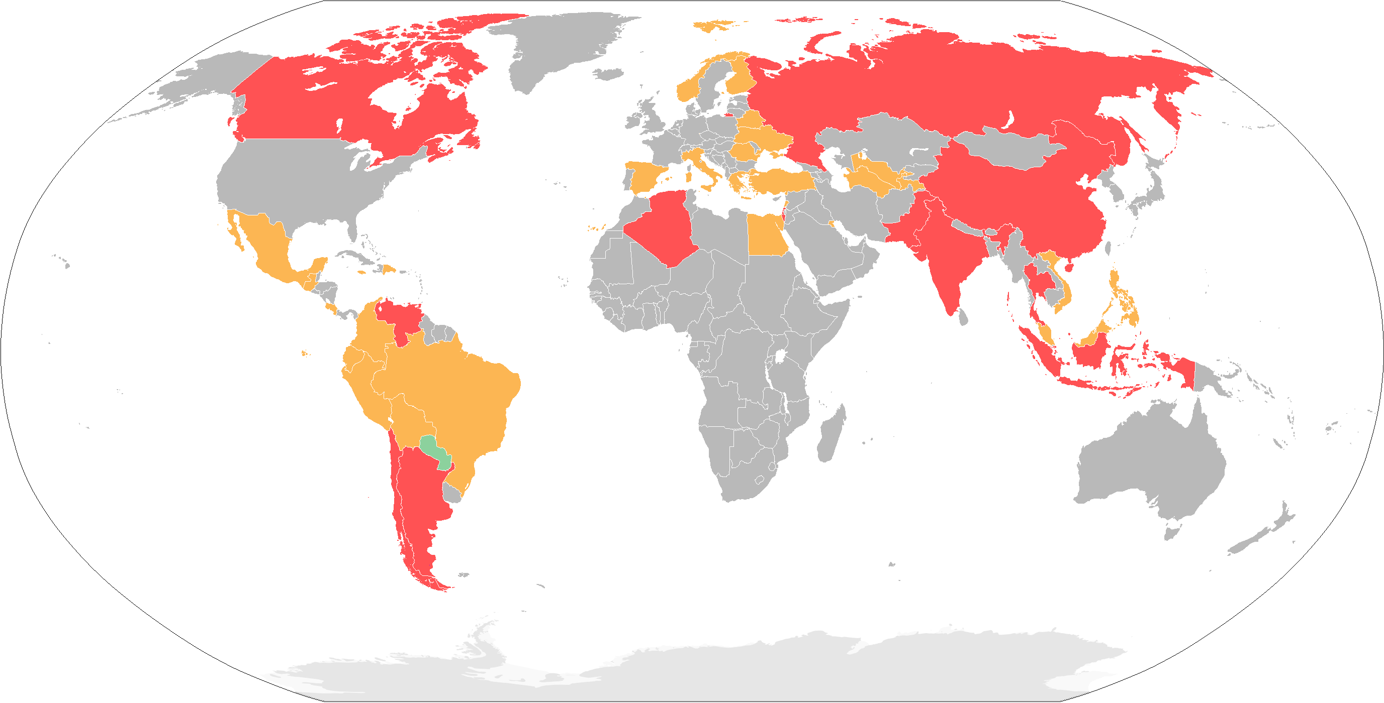 2011 Special 301 Report (World Map) Priority Watch List Watch List Section 306 Monitoring Out-of-Cycle Review/Status Pending